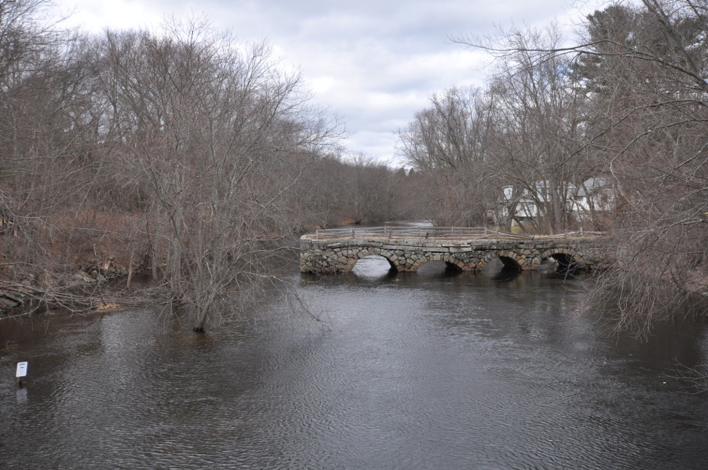 Stone's Bridge, Sudbury River between Wayland and Framingham, Massachusetts. Although the bridge is truncated before reaching the Framingham shore, its western end is in Framingham.